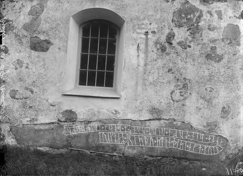 "The Bjälbo Stone" (Ög 64). The rune stone let into the wall of Bjälbo Church. The inscription says: "Valiant men raised this stone in memory of Grep, their guild-brother, son of Judde. Love carved the runes".